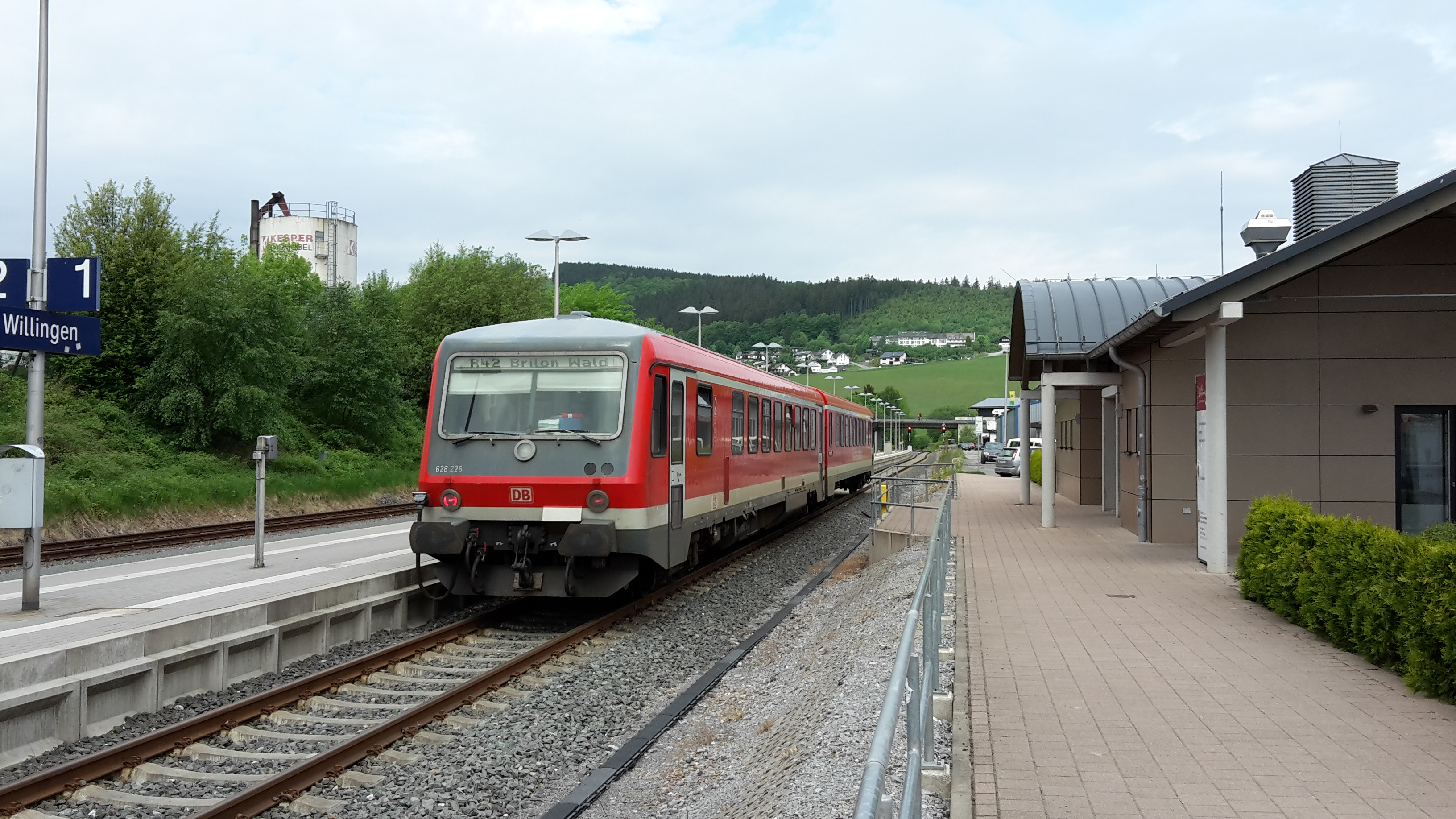 Willingen train station